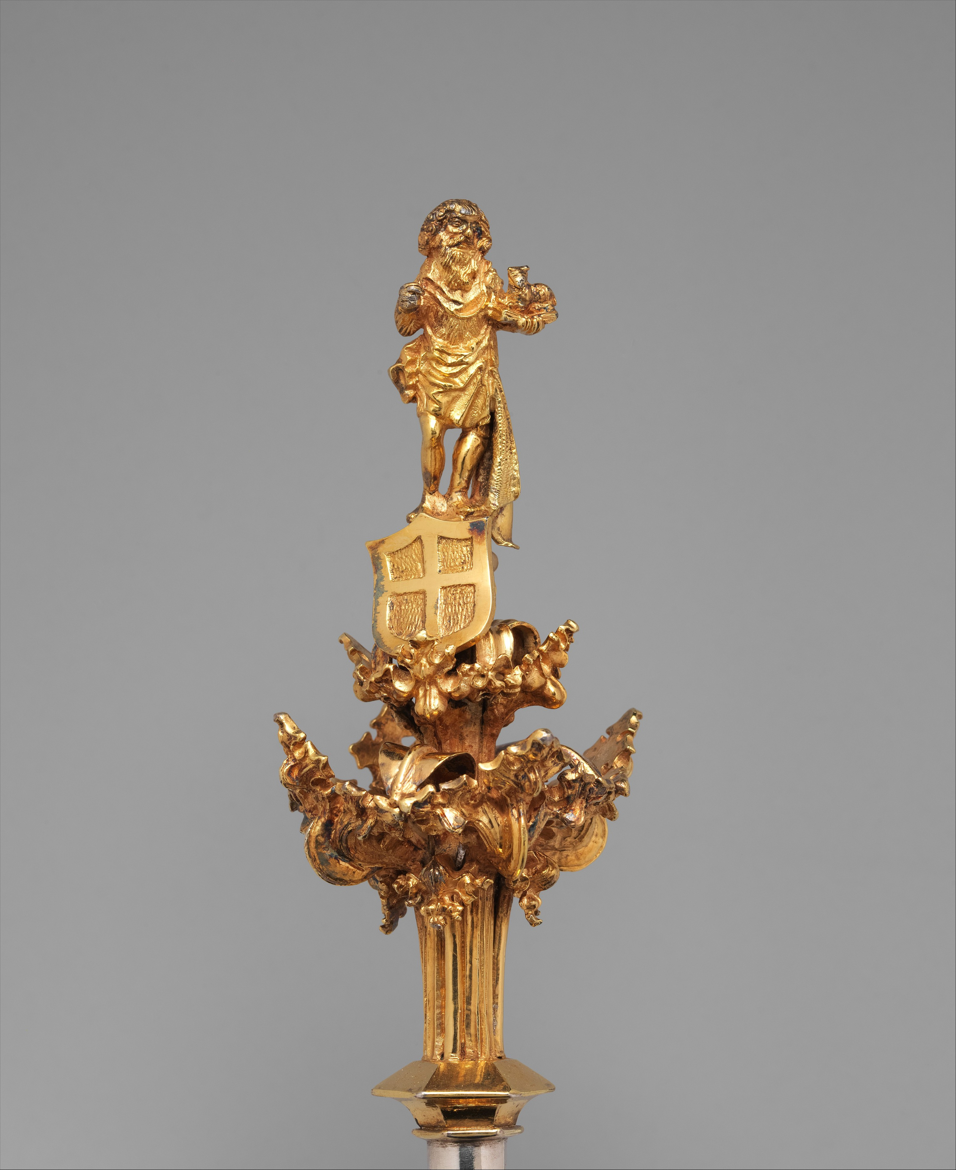 North German; Scepter; Metalwork-Silver